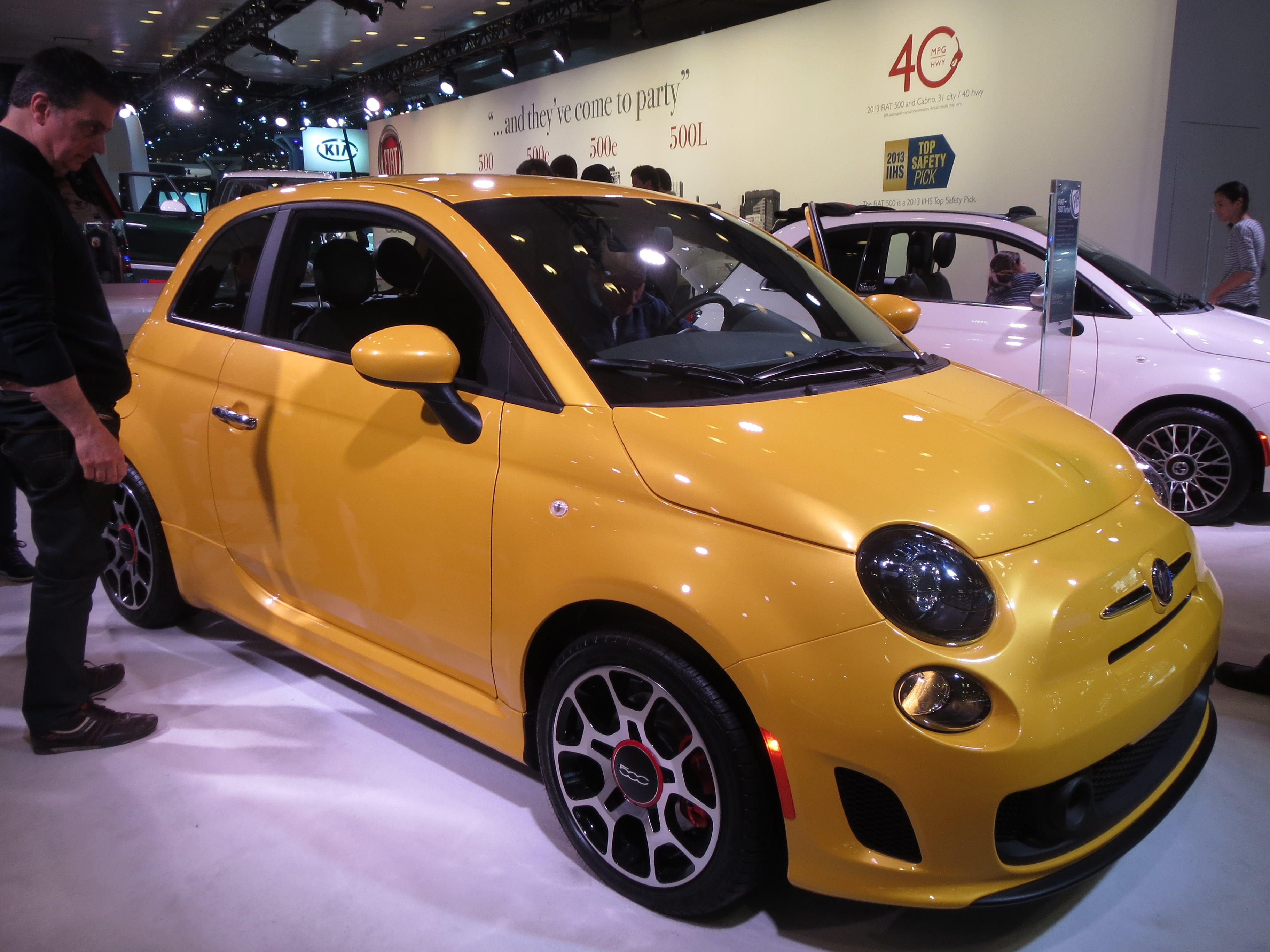 Una Fiat 500 statunitense al New York International Auto Show 2013